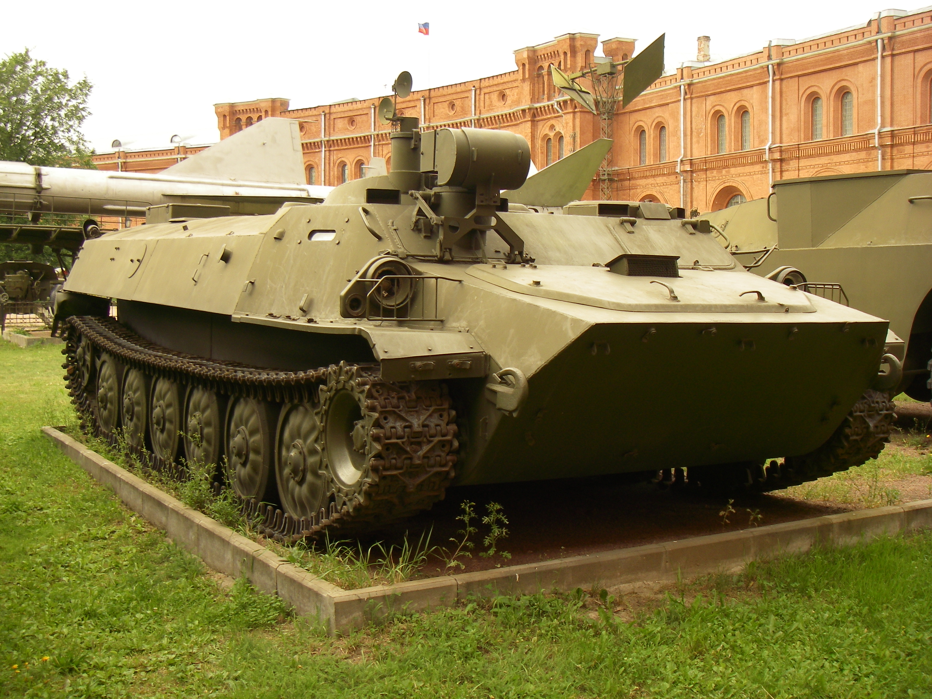 9P149 vehicle with 9M144 missiles of anti-tank complex «Shturm-S» in Saint Petersburg Artillery museum